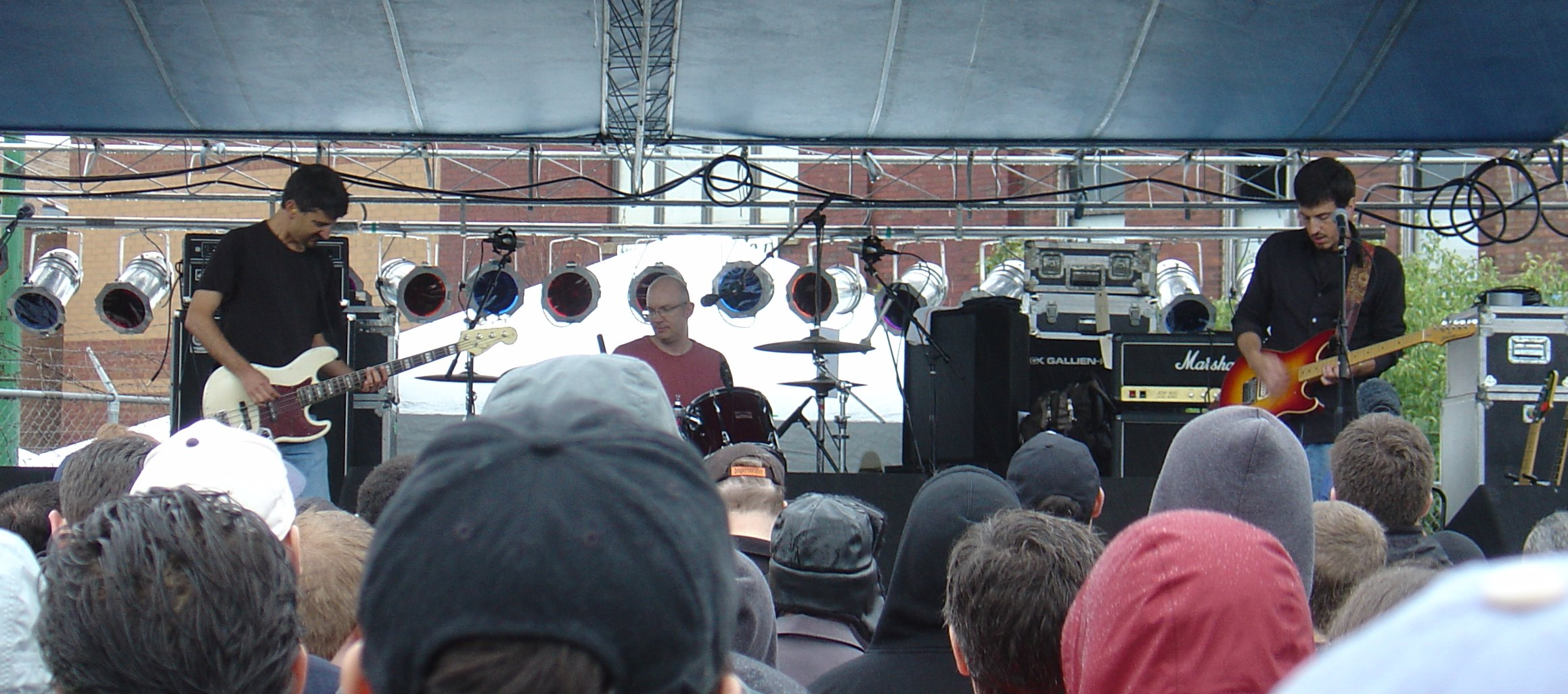 Arcwelder on stage in Chicago.